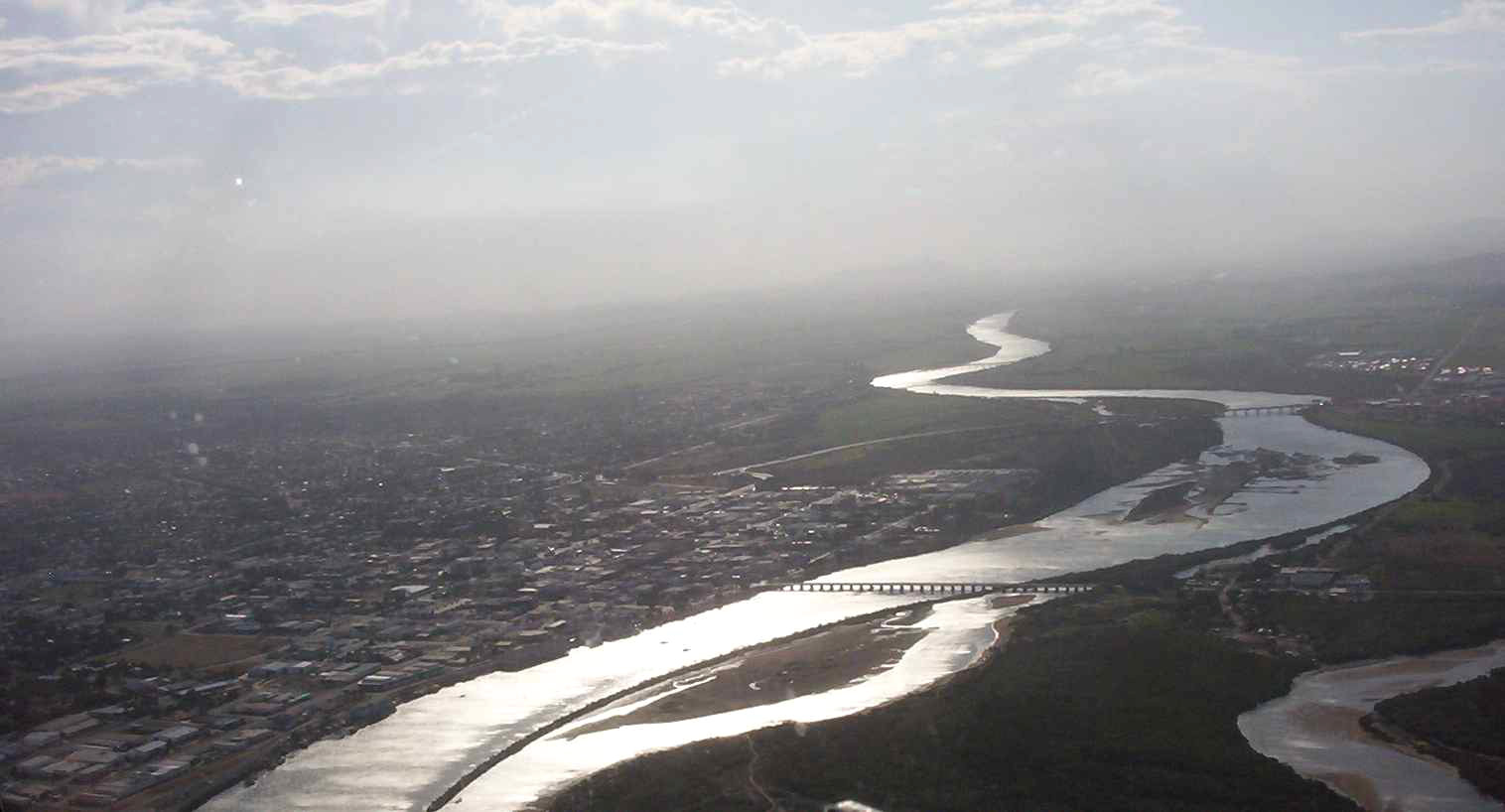 Photo I took of Mackay, Queensland, Australia, from a helicopter, in December 2005.